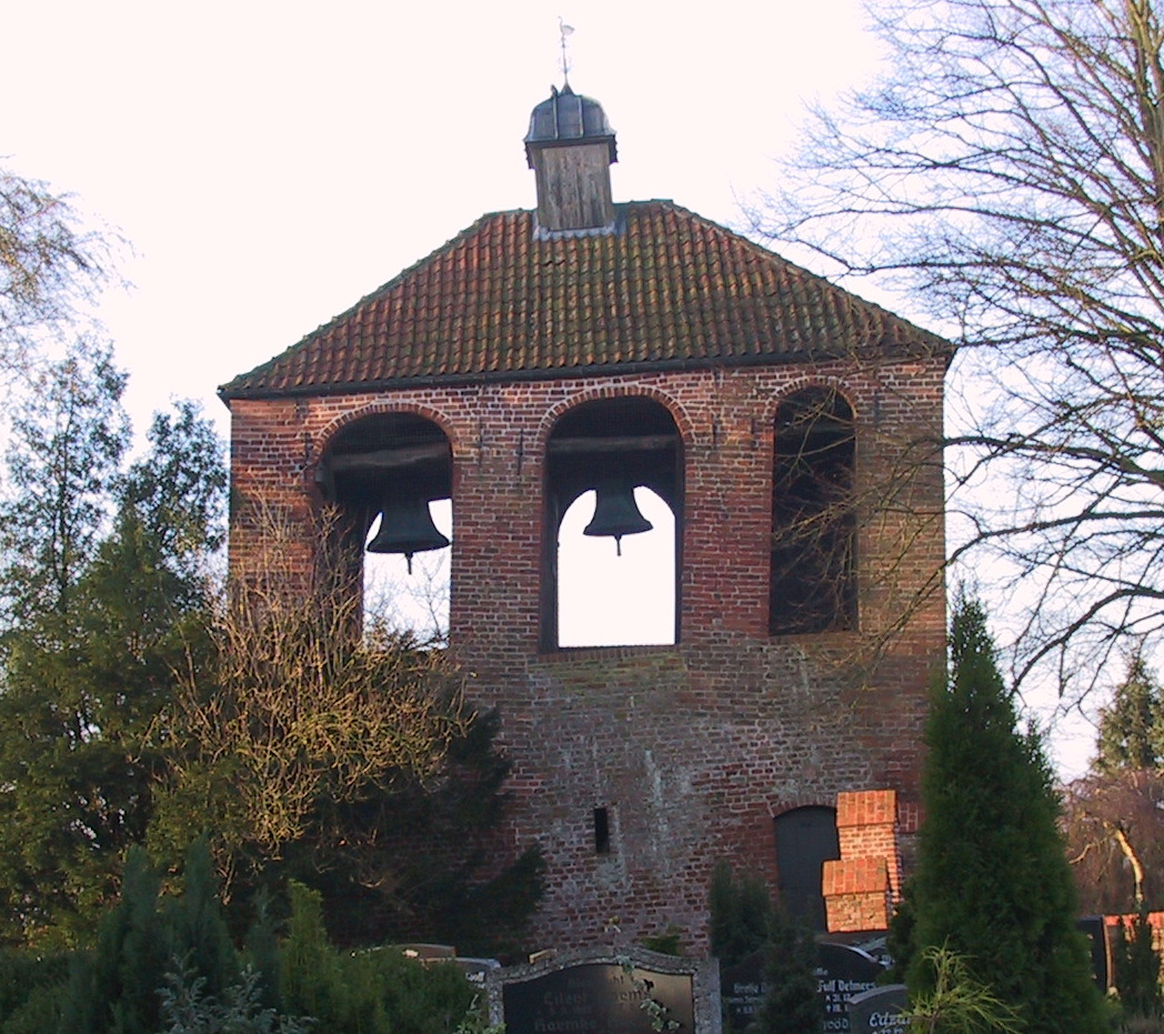 Spire of Engerhafe, Ostfriesland, Germany. In some parts of Ostfriesland church towers were built beside the church as the ground would not carry the weight of a tower attached to the church. Fly to this location (requires Google Earth)